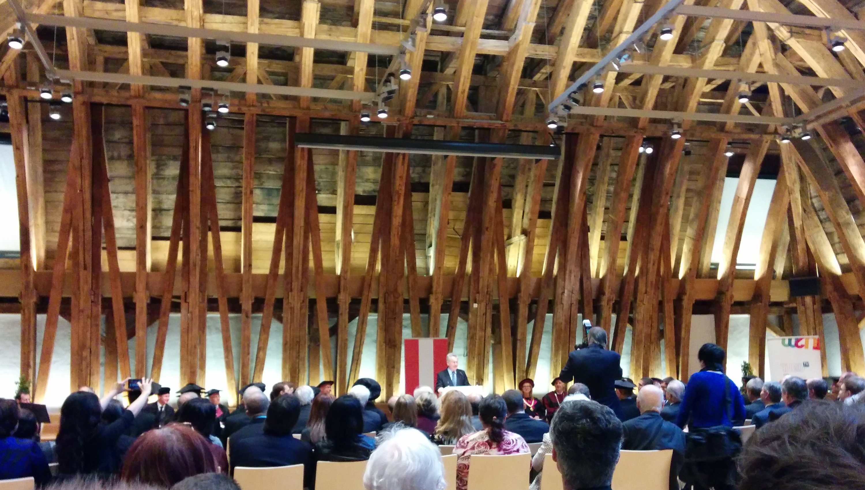 Sub auspiciis presidentis